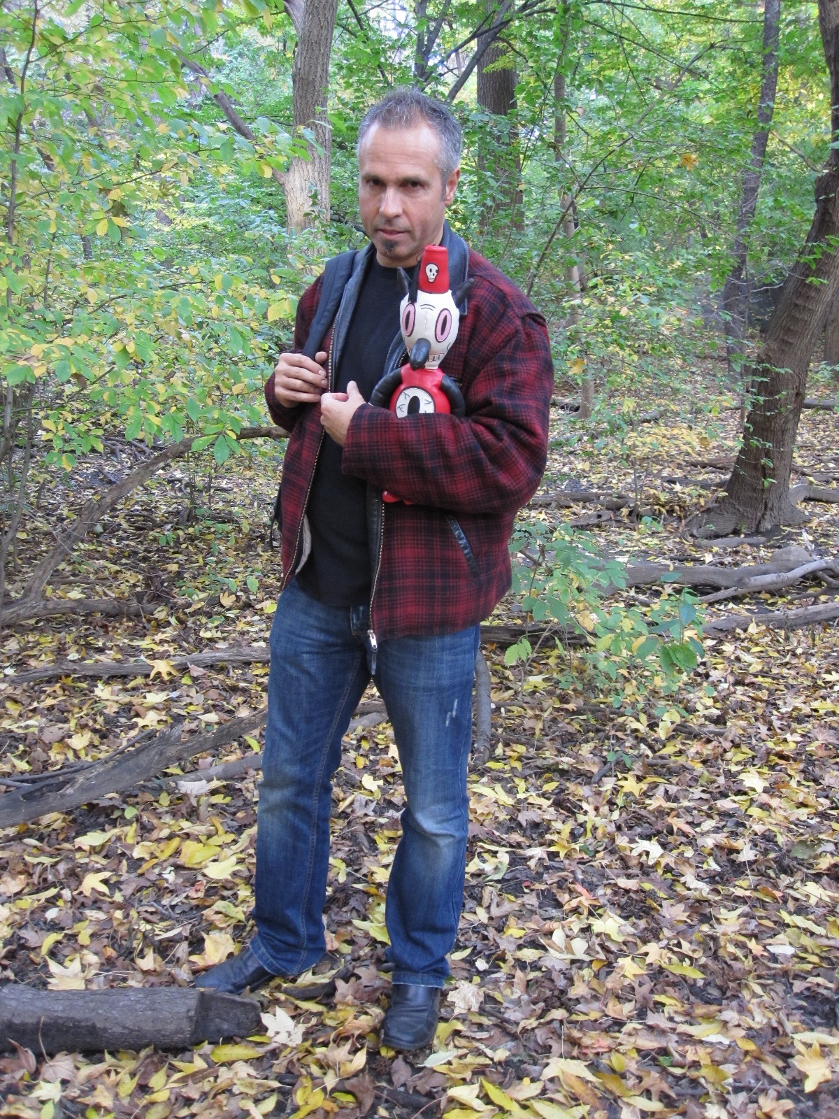 Artist Gary Baseman with his best friend, Toby.